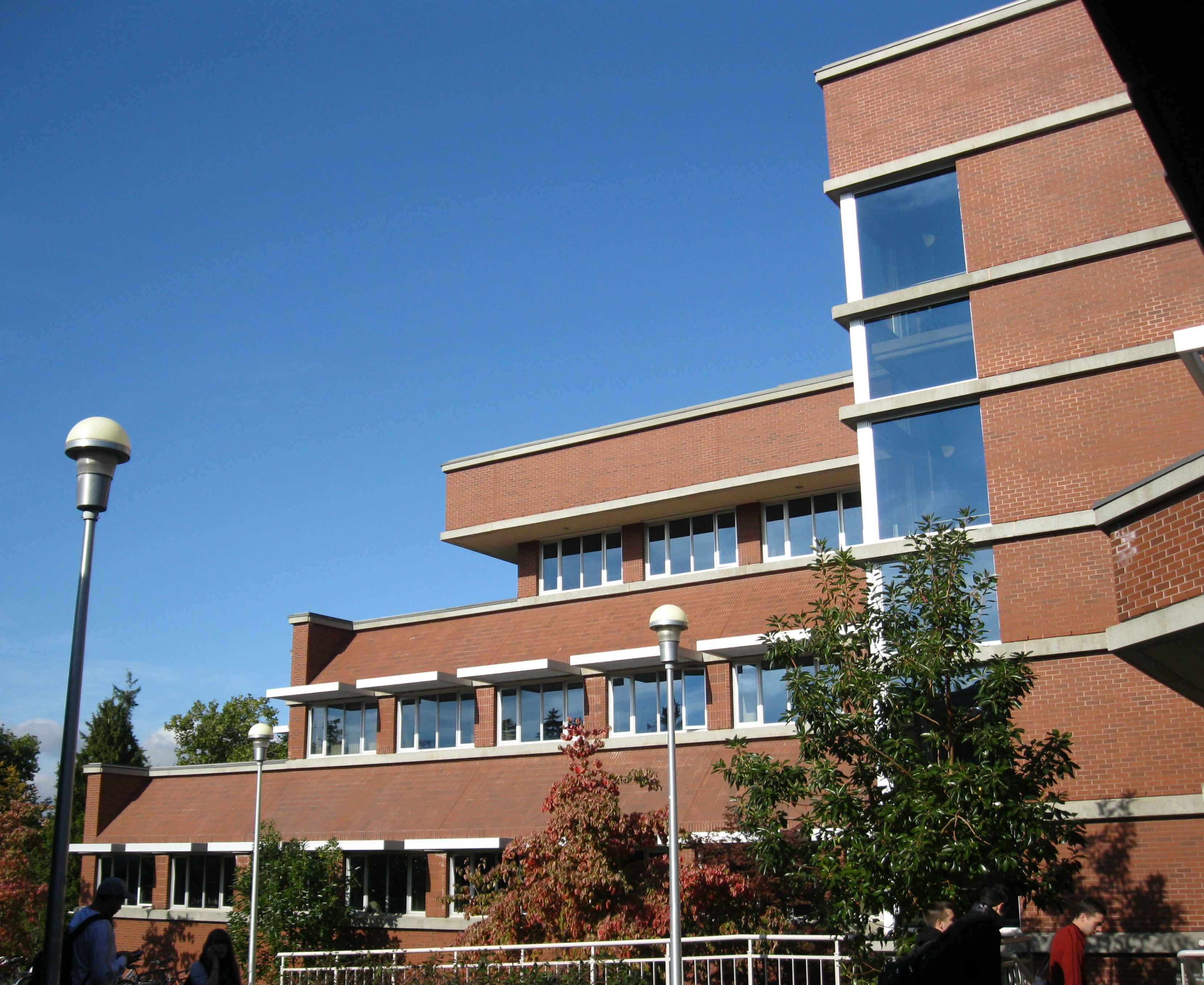 Business, Economics and Commerce. READ MORE IN PANORAMIO/COMMENT